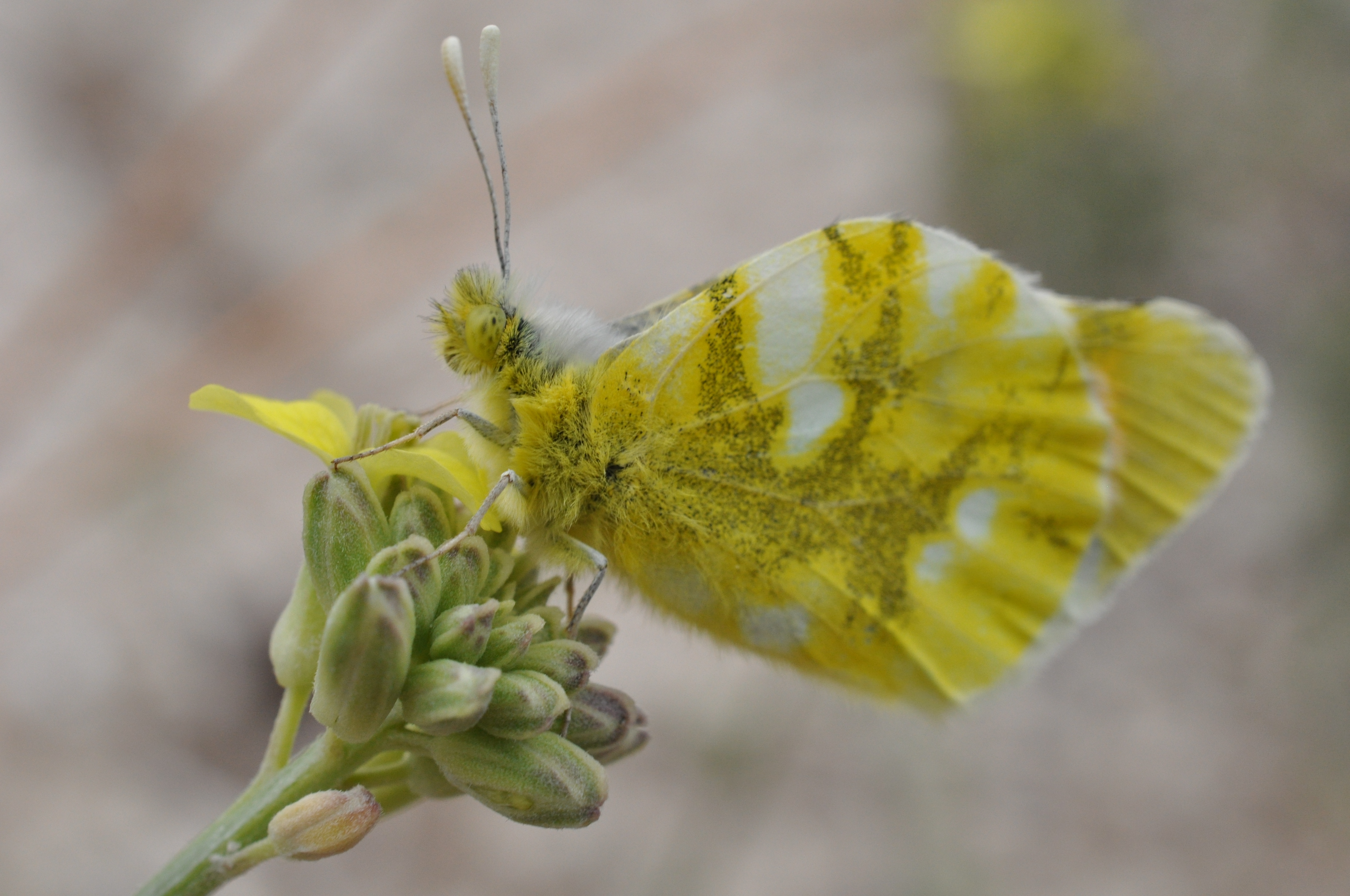 Zegris eupheme, butterfly in the family Pieridae